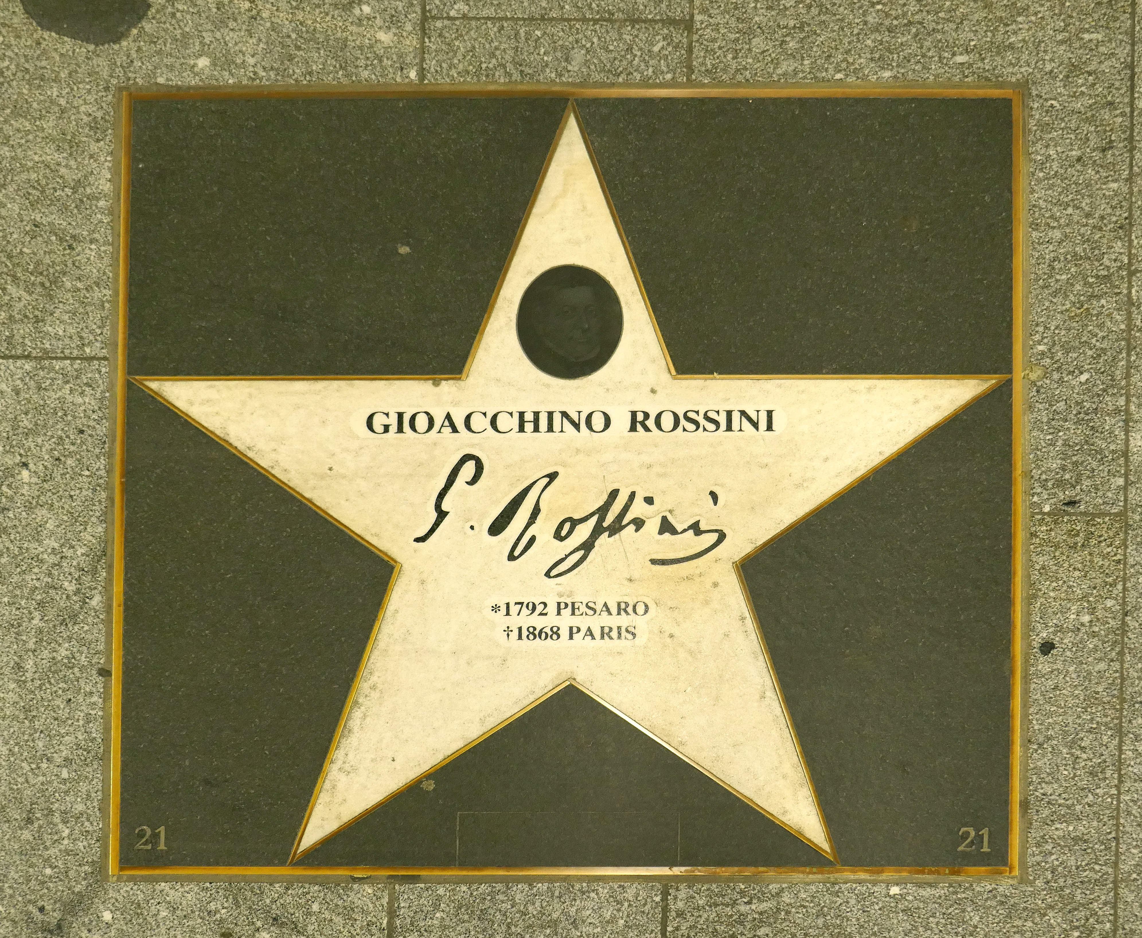 Walk of Fame Vienna Gioachino Rossini.